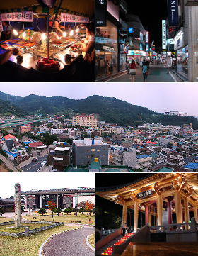 Montage of various Gwangju images